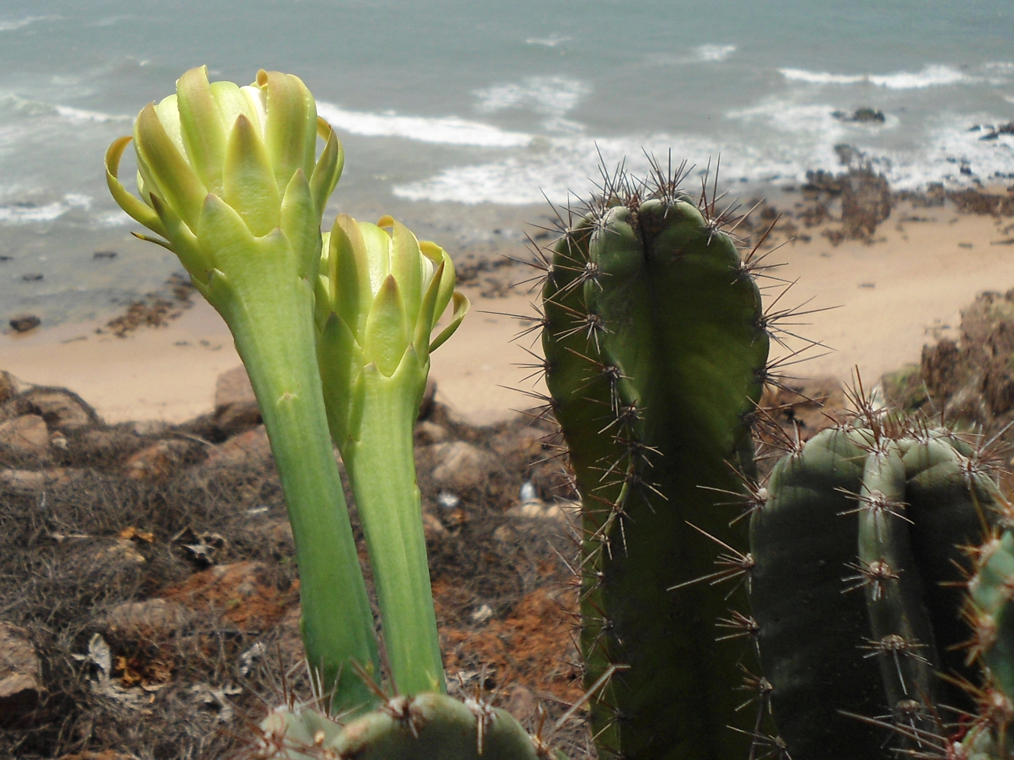 (Cereus hildmannianus) cactus at Tenneti park in Visakhapatnam